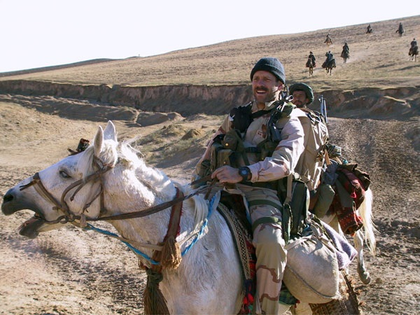 US Air Force Special Operations Command Combat Controller Bart Decker rides an Afghan horse in Afghanistan in the early stages of Operation Enduring Freedom.